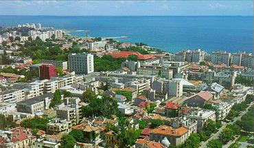 Panorama of Constanţa, Romania, on the Black Sea coast.